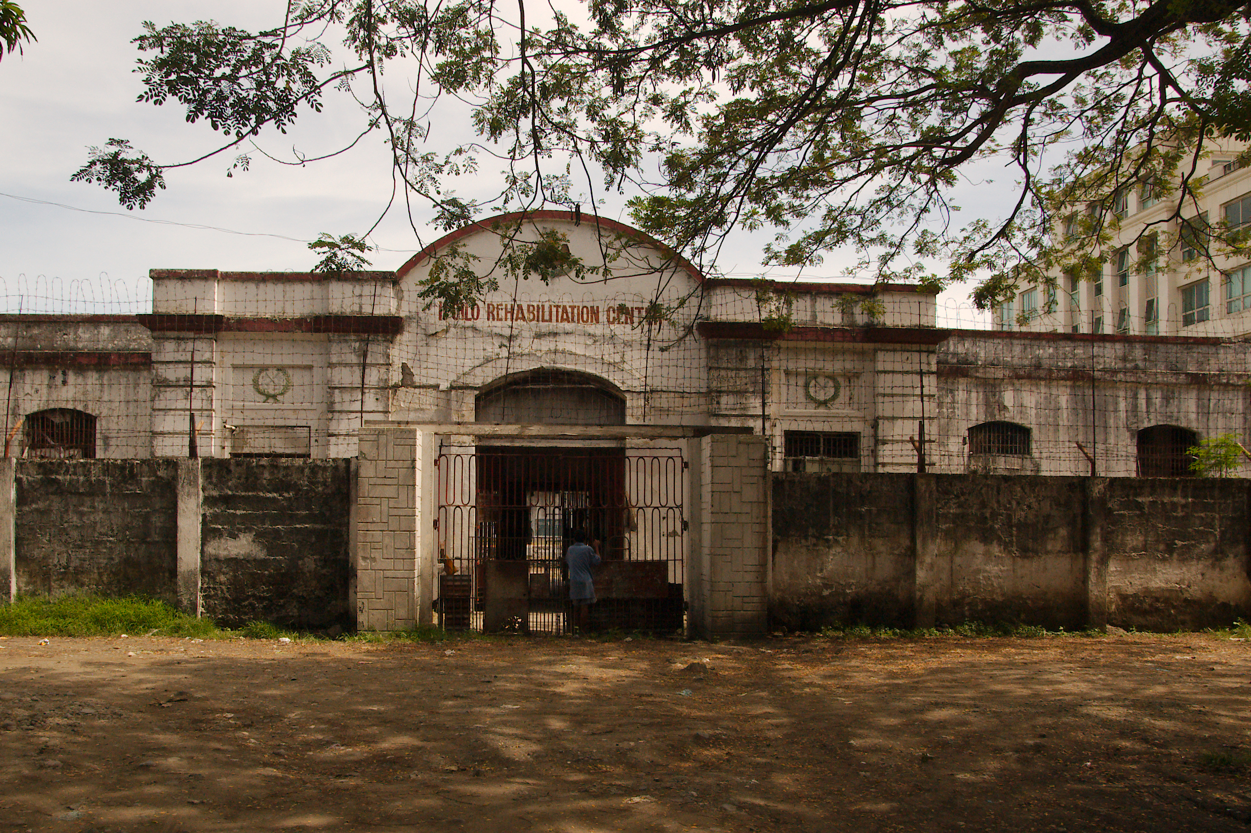 The gate of the Iloilo Provincial Jail in Iloilo City.